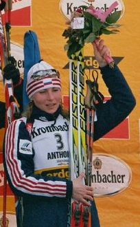 Bailly, Wilhelm & Akhatova on a podium